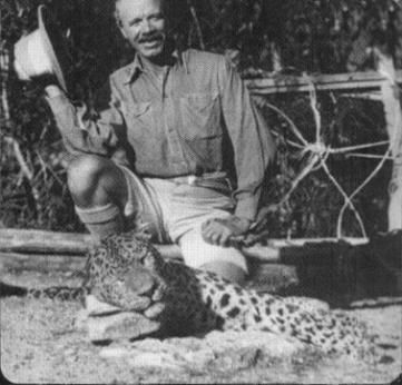 This photograph of Jim Corbett was taken in India in 1925 after he killed the Leopard of Rudraprayag.